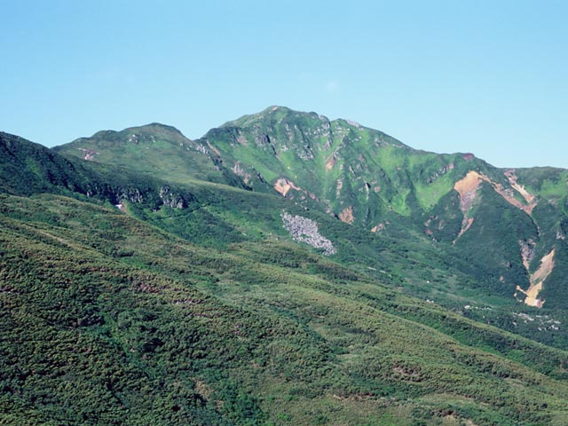 Mount Furano seen from the ENE.